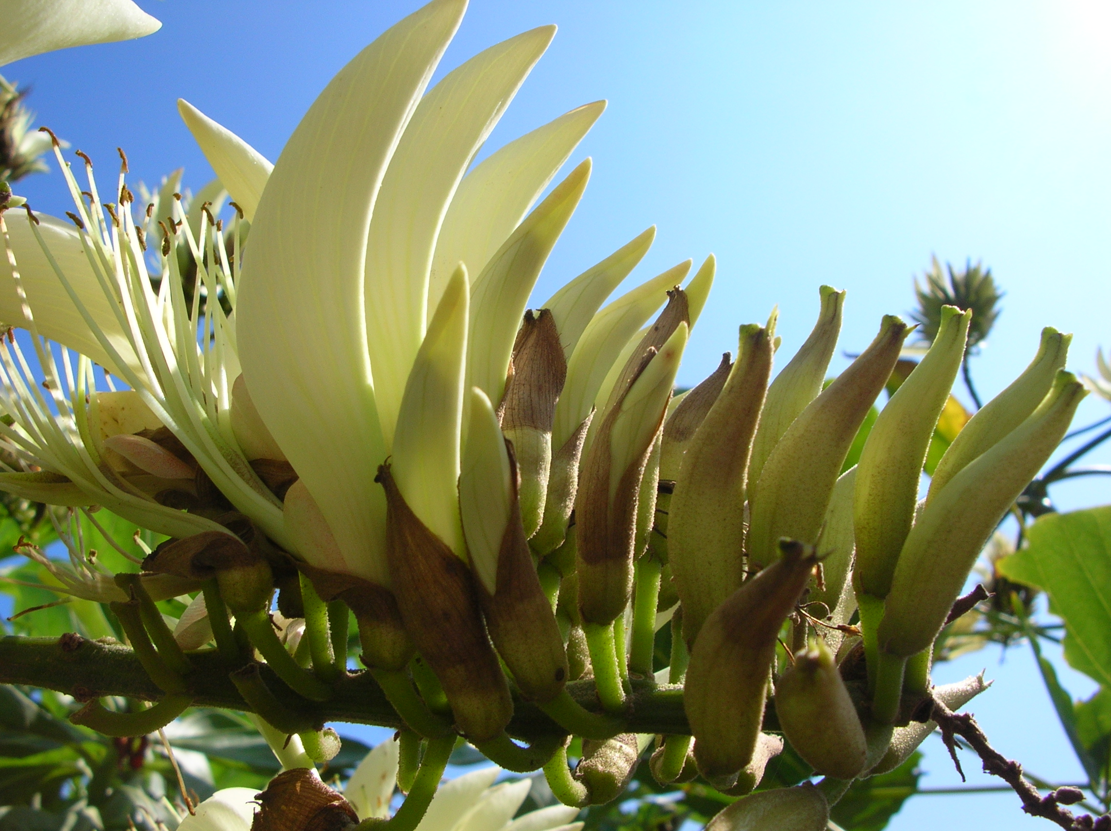 Erythrina variegata (flowers). Location: Maui, Kanaha Beach